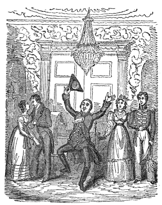 Illustration in 1860 publication of Thomas Morton's 1807 play "Town and Country". Creator of illustration not identified.